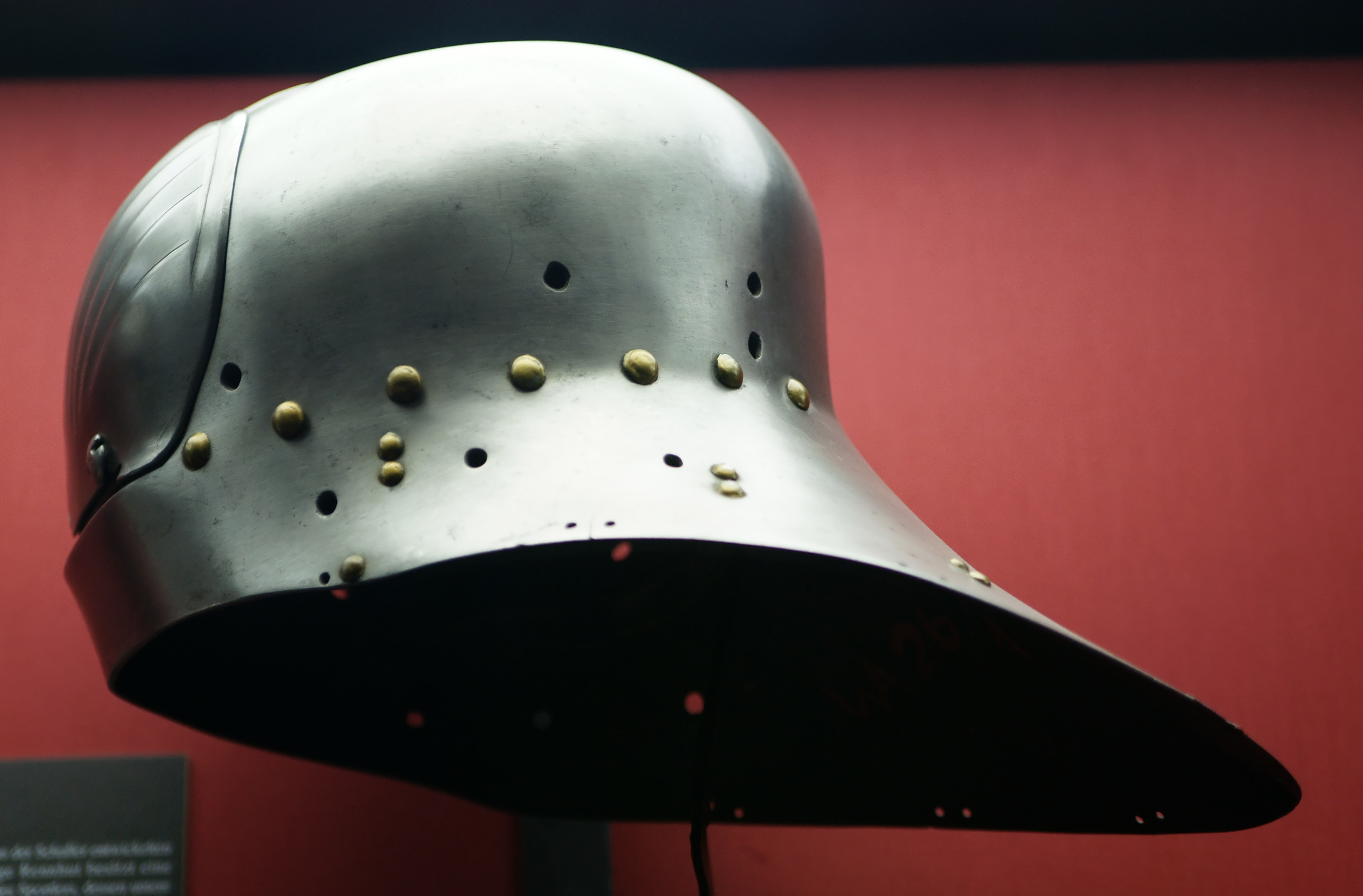 Racing helmet (Rennhut) of Emperor Maximilian I.